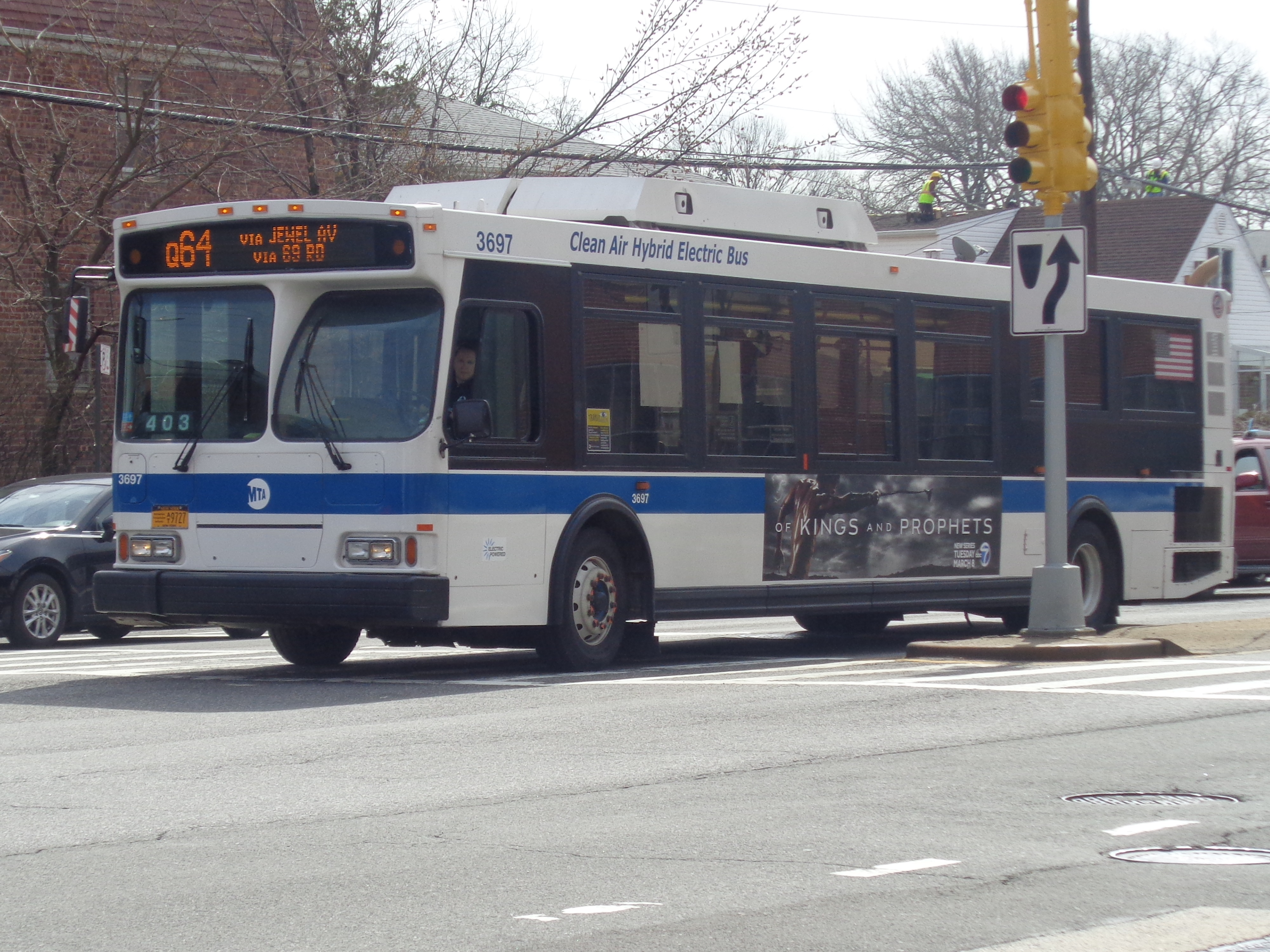 A Forest Hills-bound Q64 bus turning from 164th Street onto Jewel Avenue in Electchester, Queens.